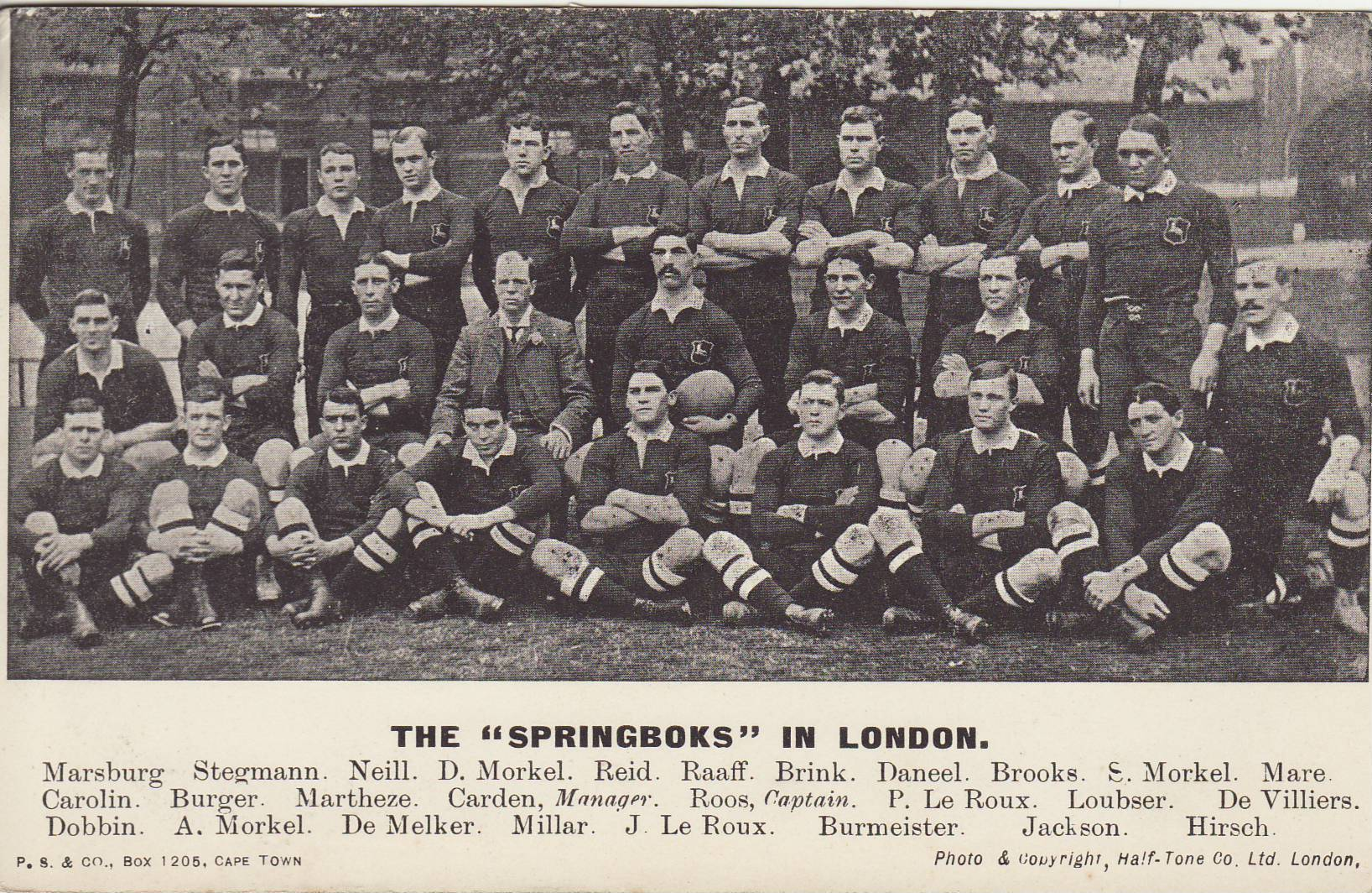 The South Africa national rugby union team, photographed during their first tour on Europe.